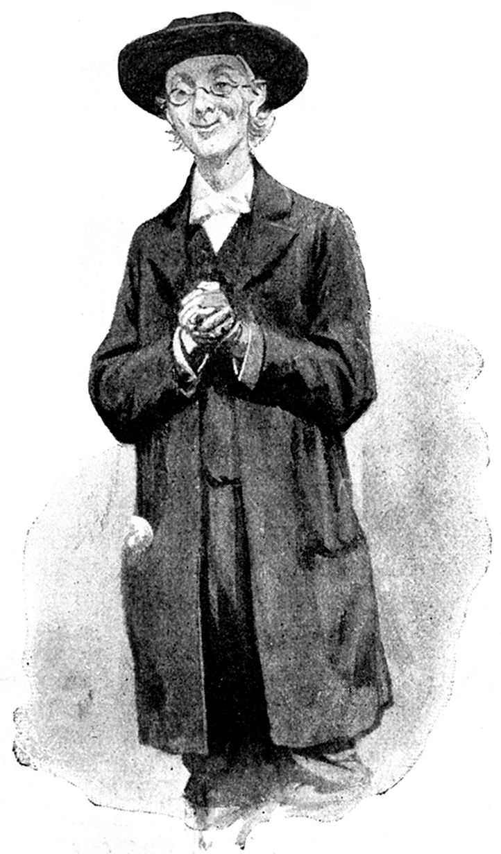 Illustration from the Sherlock Holmes story "Adventures of Sherlock Holmes I.--A Scandal in Bohemia", which appeared in The Strand Magazine in July, 1891. This illustration appeared on page 70, and is captioned, "A SIMPLE MINDED CLERGYMAN."